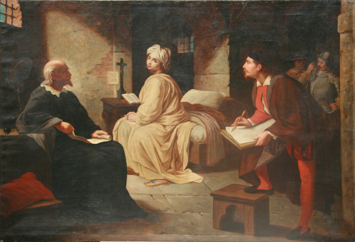 «The Imprisonment of Beatrice Cenci». The subject is based on the legend, that painter Guido Reni has painted notable Cenci's portrait, when she was already in prison. Now that head is no more attributed to Reni